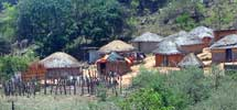 An African homestead in South Africa, with a cattle kraal in the foreground